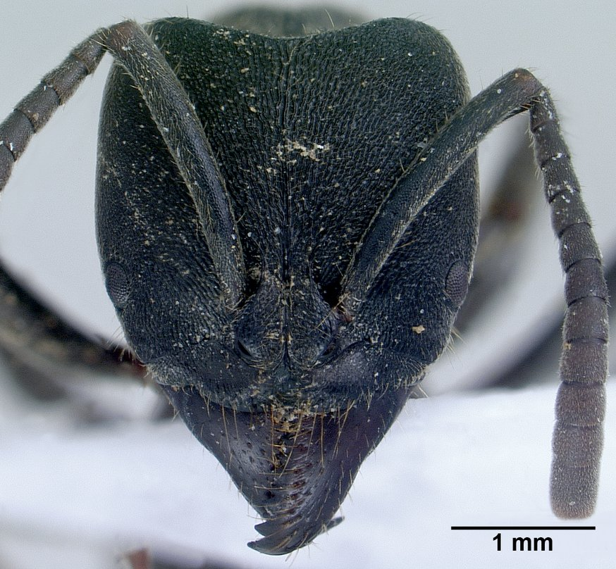 Head view of ant Ectomomyrmex astutus specimen casent0179011.